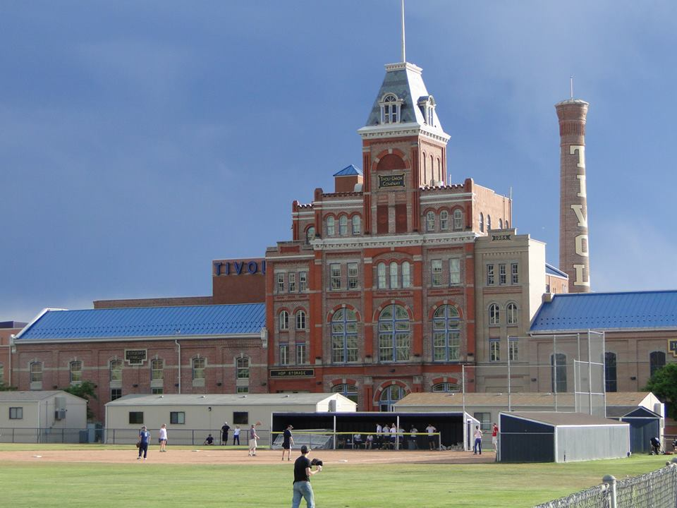 Beautiful Denver evening at the iconic Tivoli